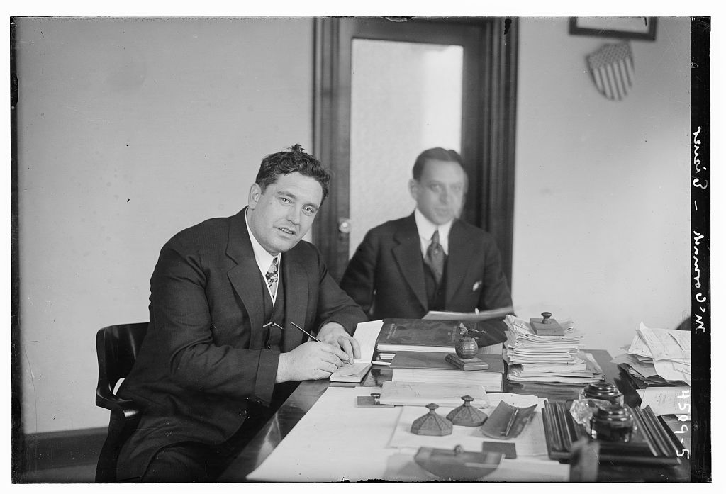 John McCormack, the singer, put into the hands of Mark Eisner, Collector of Internal Revenue for the Third New York District $75,000 on March 6, 1918